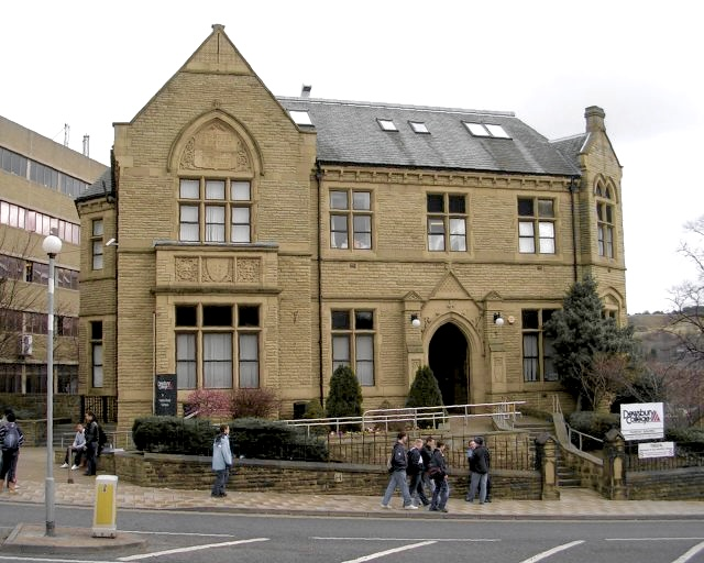 Dewsbury & District Technical School of Art & Science - Halifax Road. Built 1889, now part of Dewsbury College.